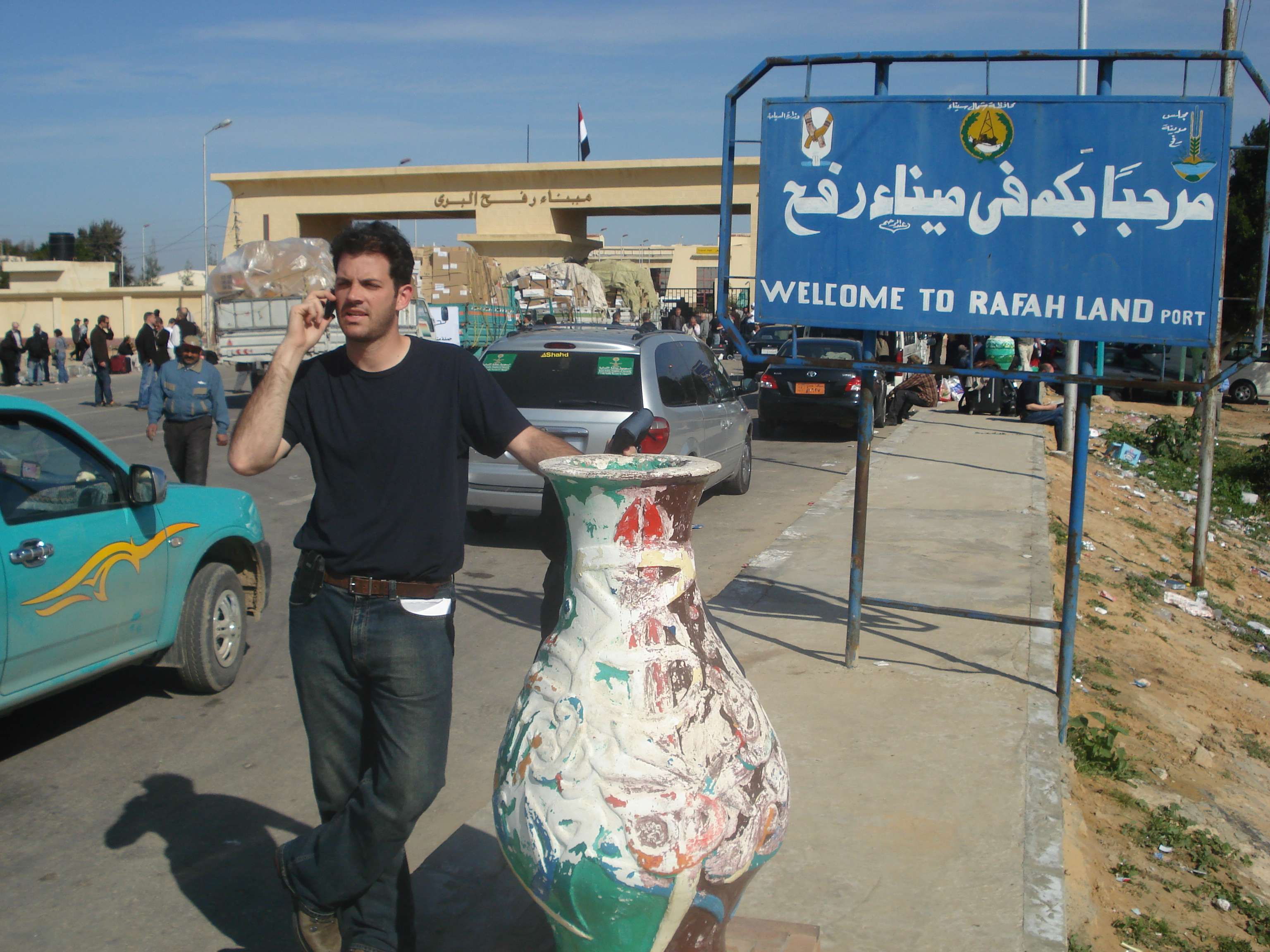 A man waits with his vase at the Rafah Land Port